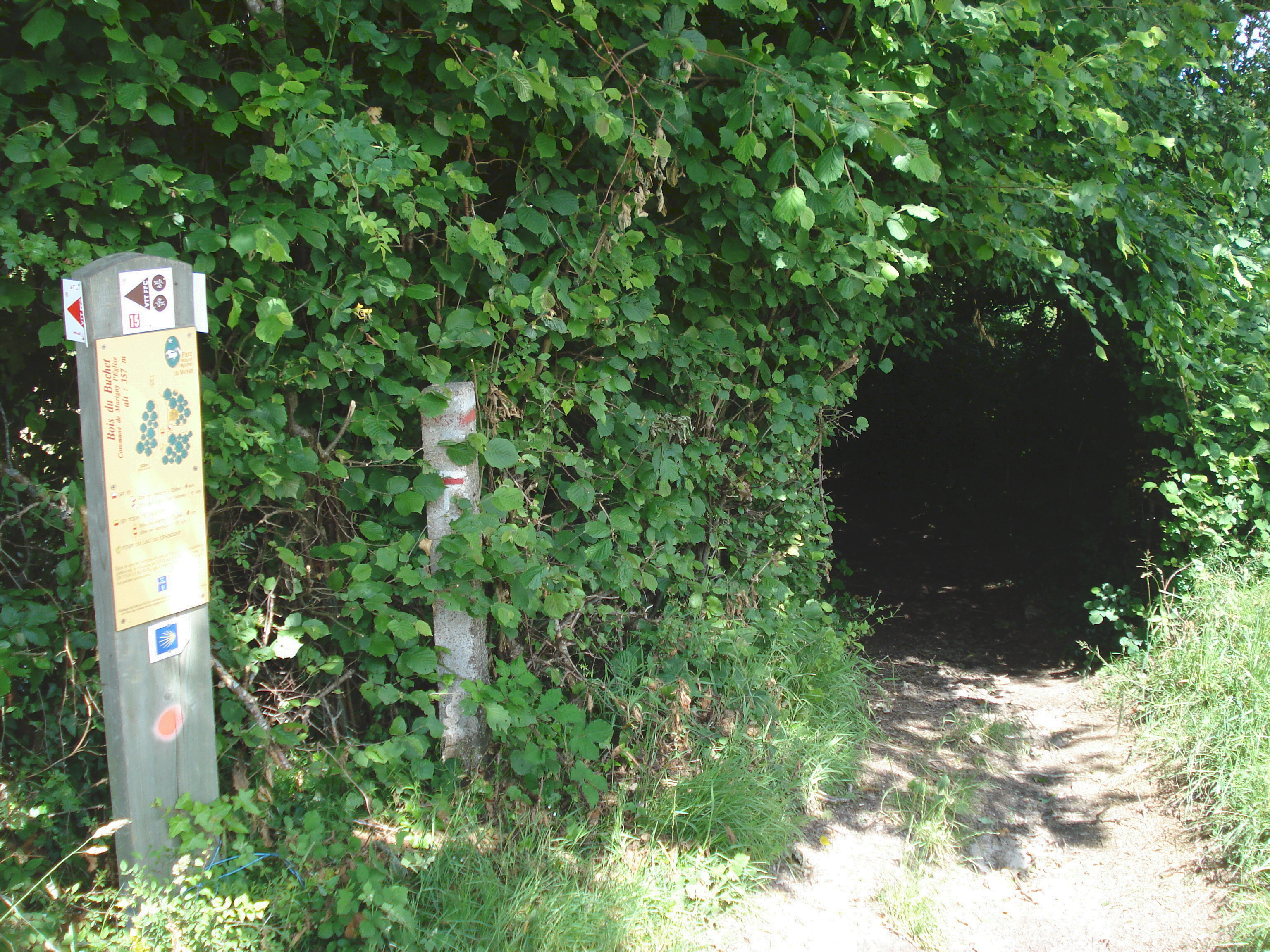 Balisages multiples à Marigny-l'église.